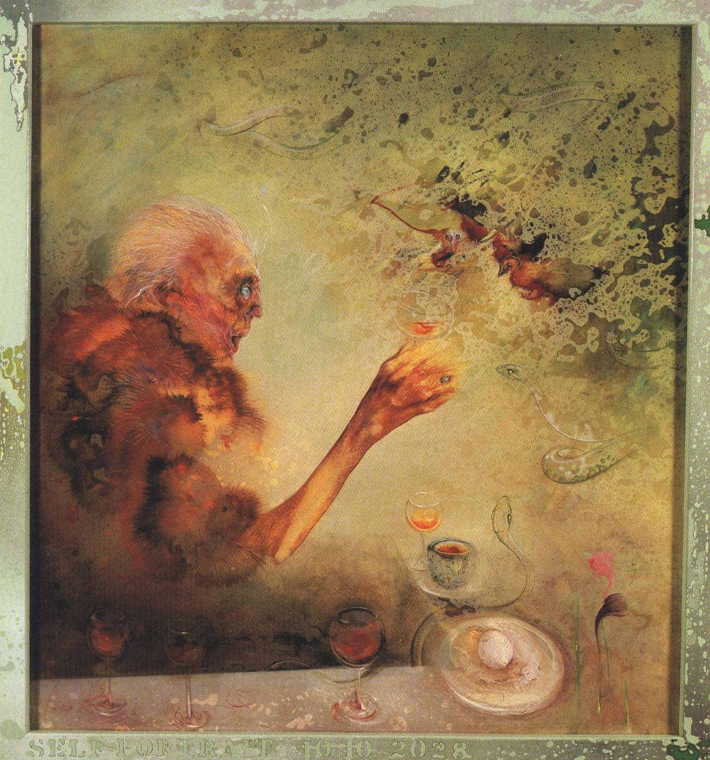 "Self portrait age 90", Oil on board, 90 x 100cm, Private Collection